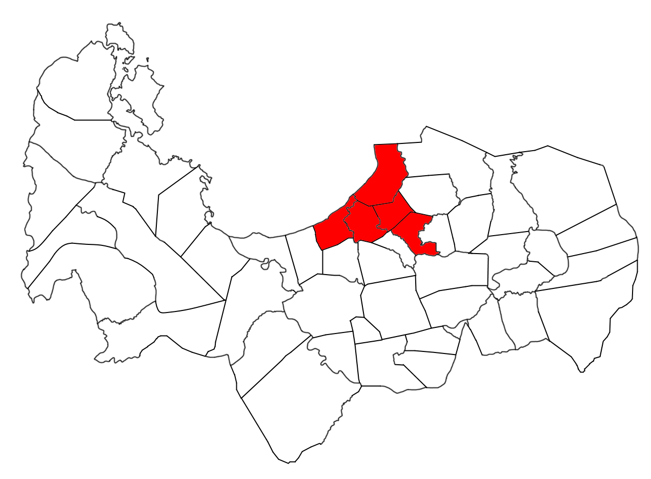 a 4d district map